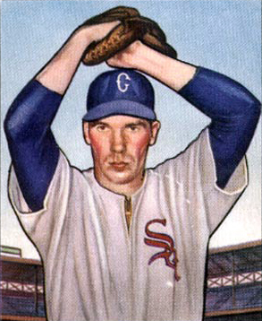 Bob Kuzava of the Chicago White Sox